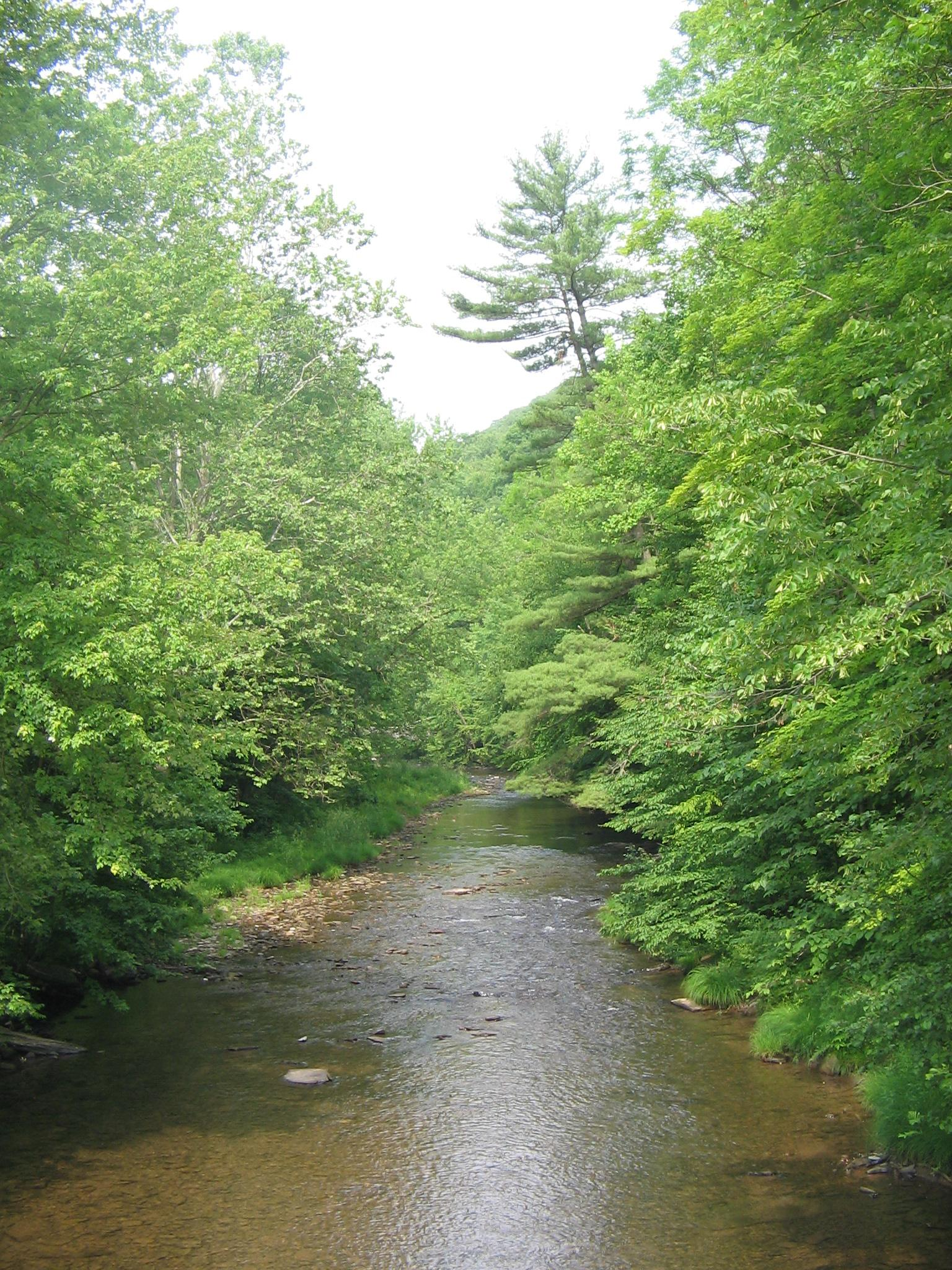 Larrys Creek looking upstream from the bridge in Salladasburg, Lycoming County, Pennsylvania, United States